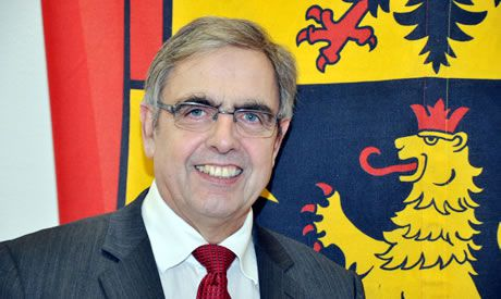 Klaus Penzer